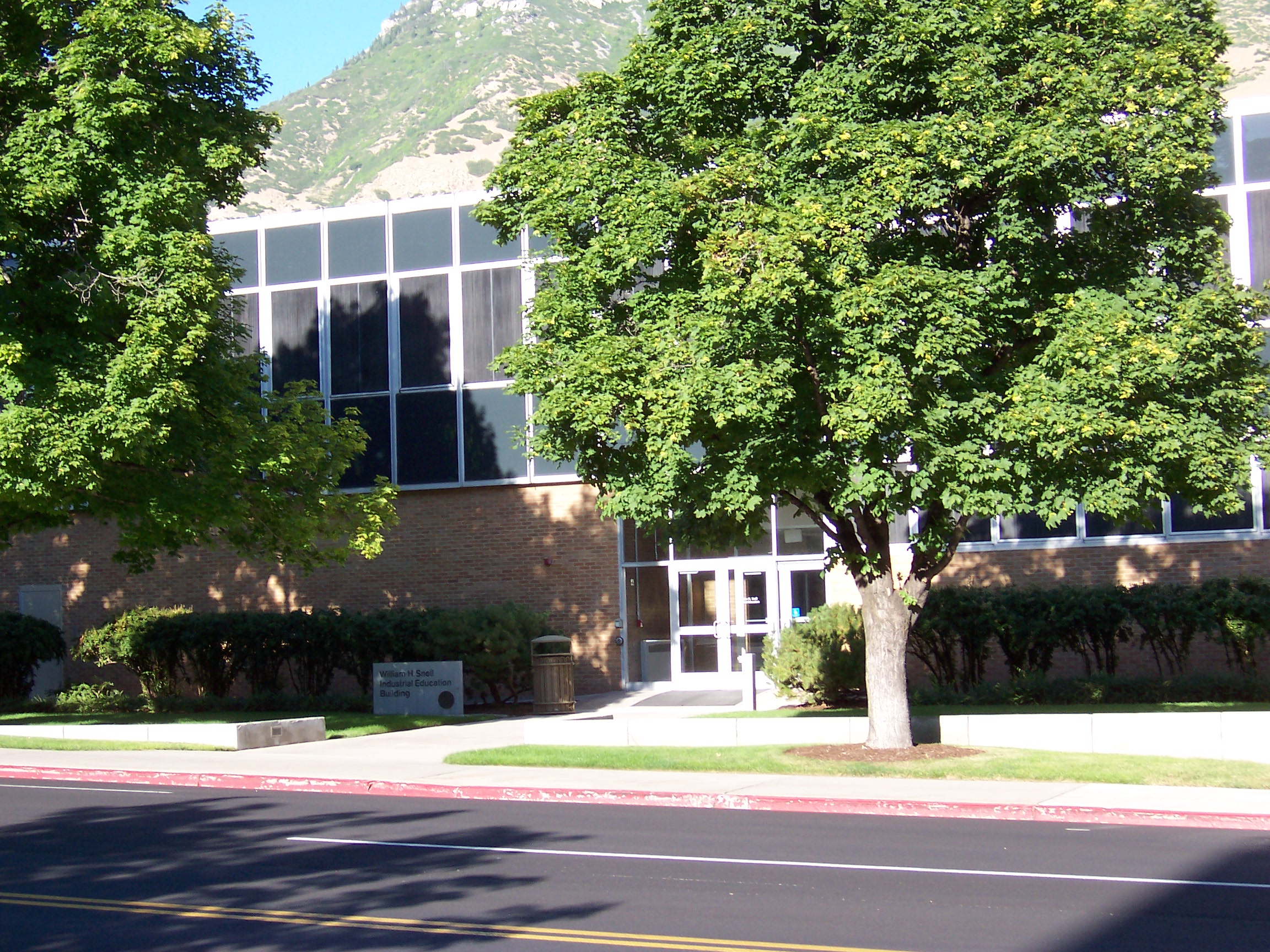 Photograph of the Snell (William H.) Building at Brigham Young University.